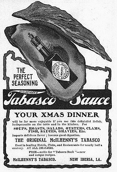 A Tabasco sauce ad from ca. 1905. Note the cork-top bottle and diamond logo label, both of which are similar in design to those used today.